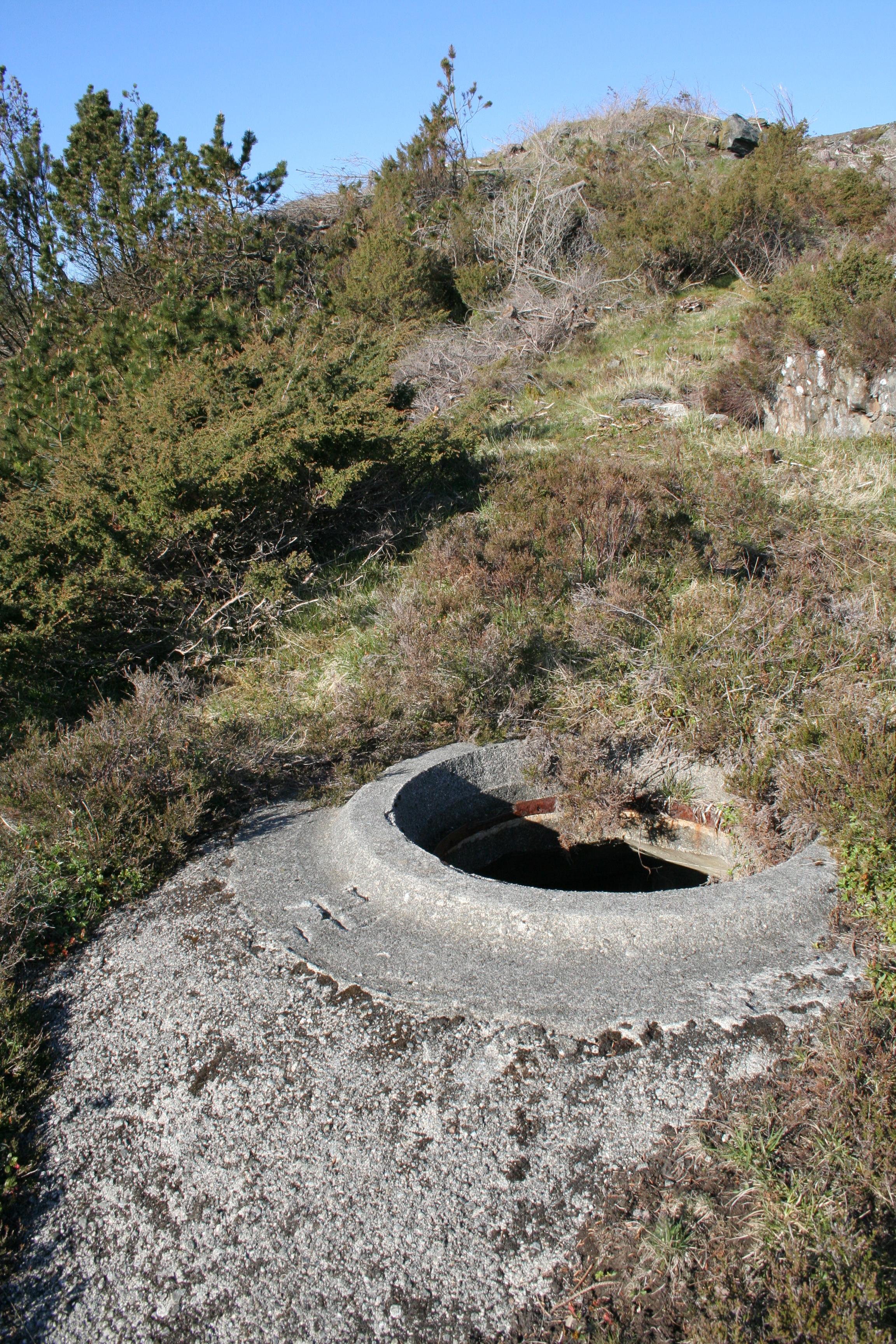 A «Ringstand», Rs58, for MG, placed at Fjell Festning, Hordaland, Norway. Note the Swastika in the concrete in front of the «ringstand». German fortification from WWII.